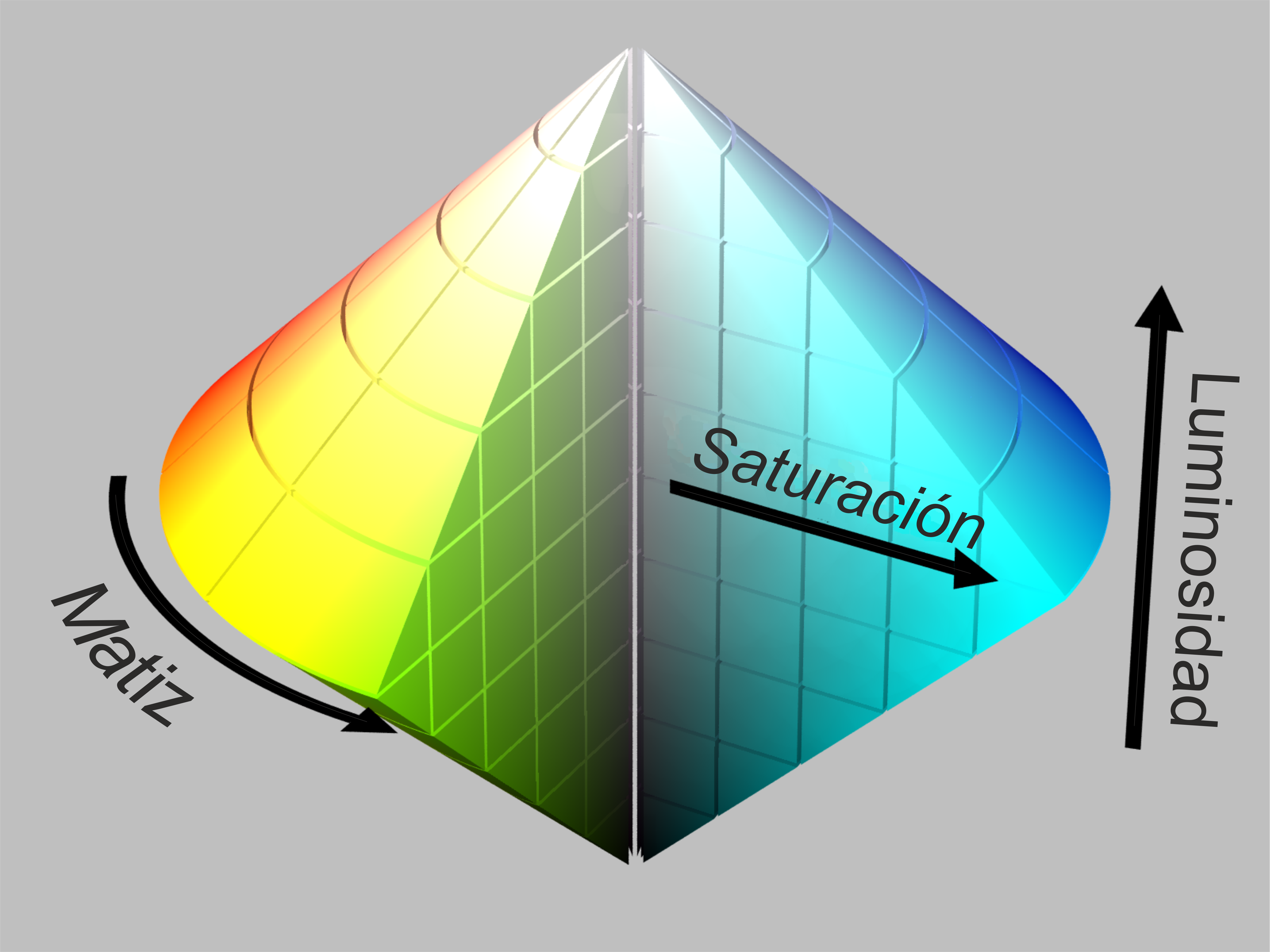 Bicone of HSL color system (spanish)